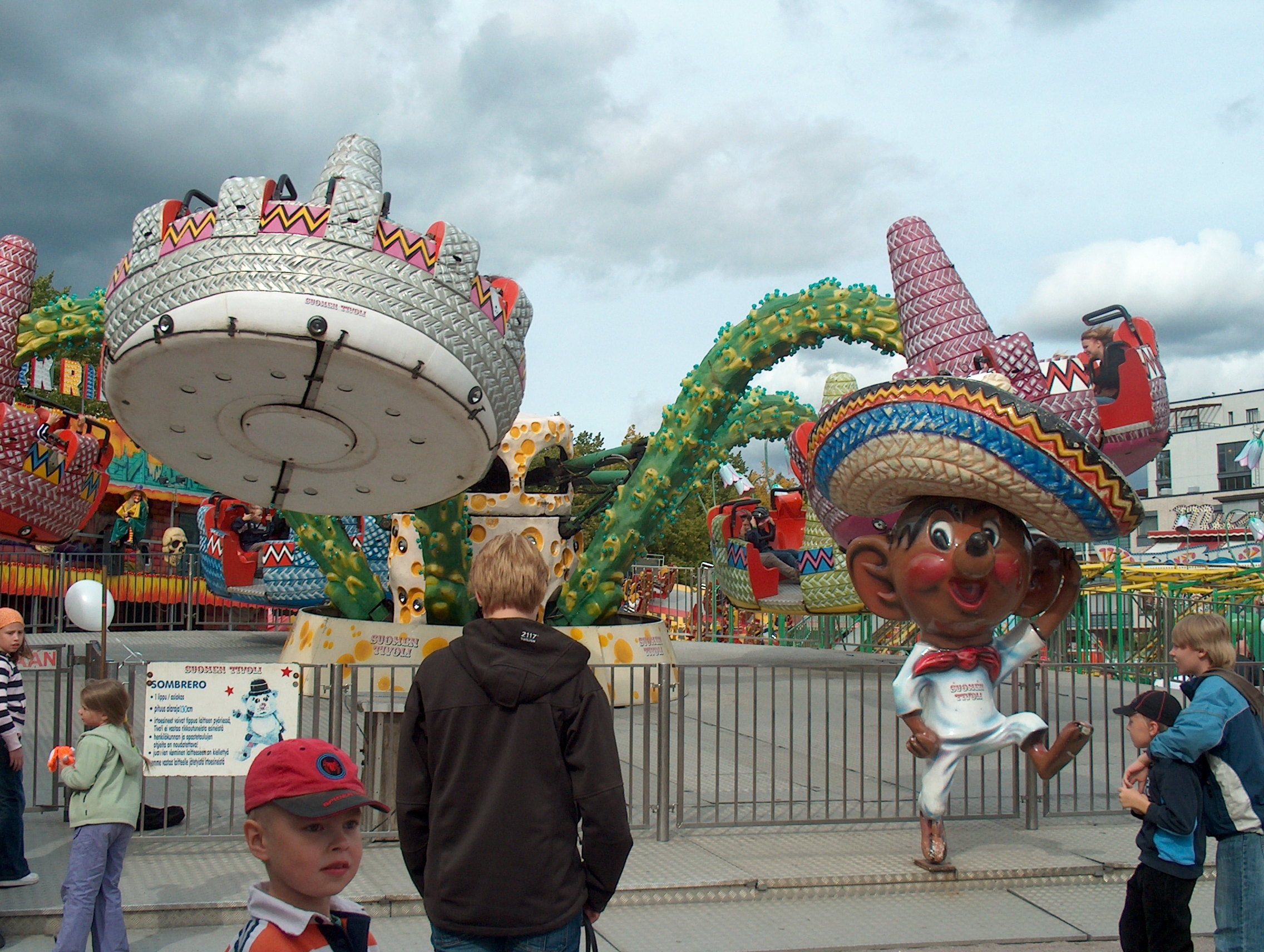 The Sombrero of the funfair Suomen Tivoli in Kerava at Circus Festival 2007